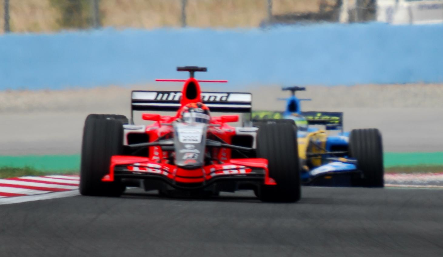 Christijan Albers driving for MF1 Racing at the 2006 Turkish Grand Prix.